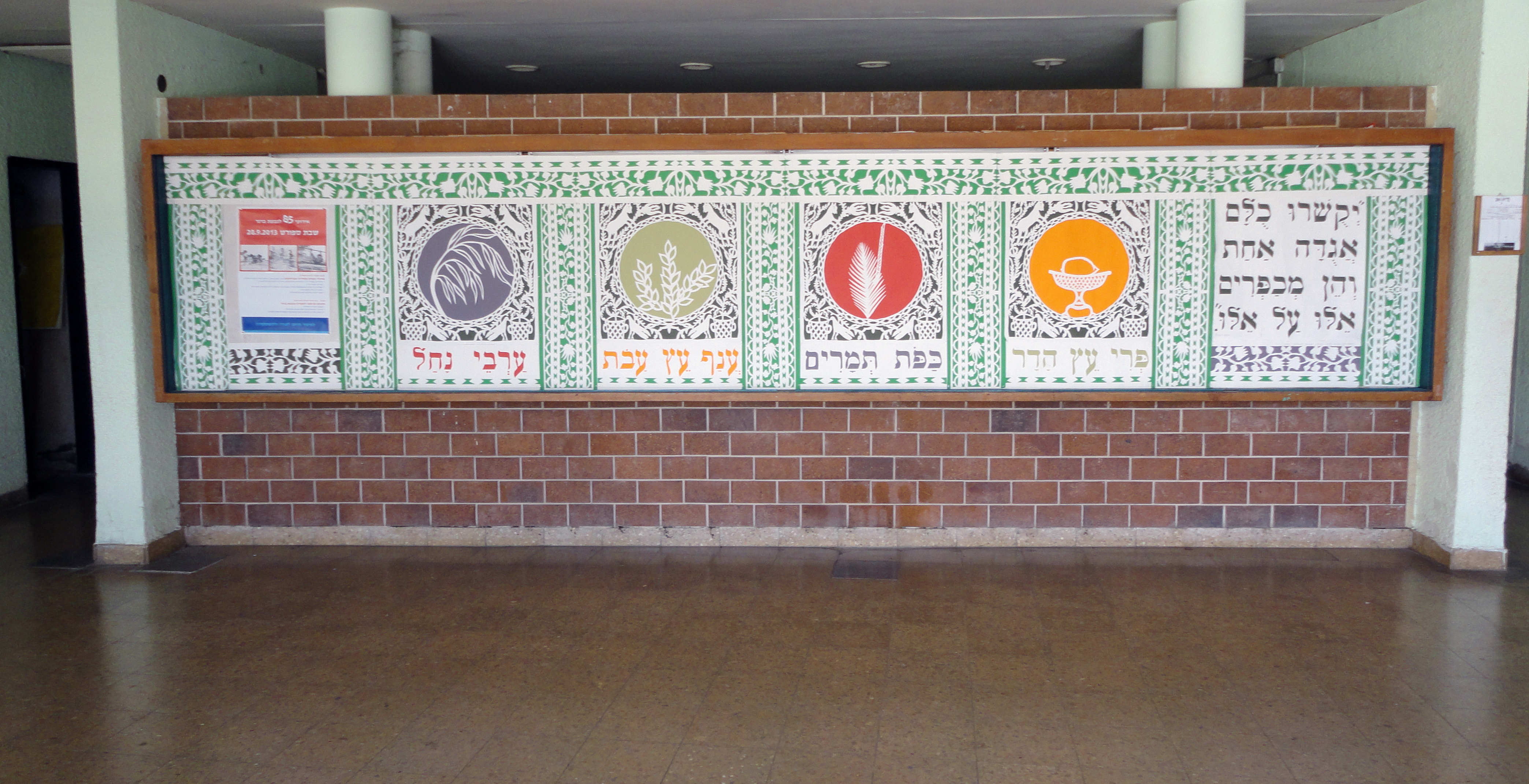 Givat Brenner